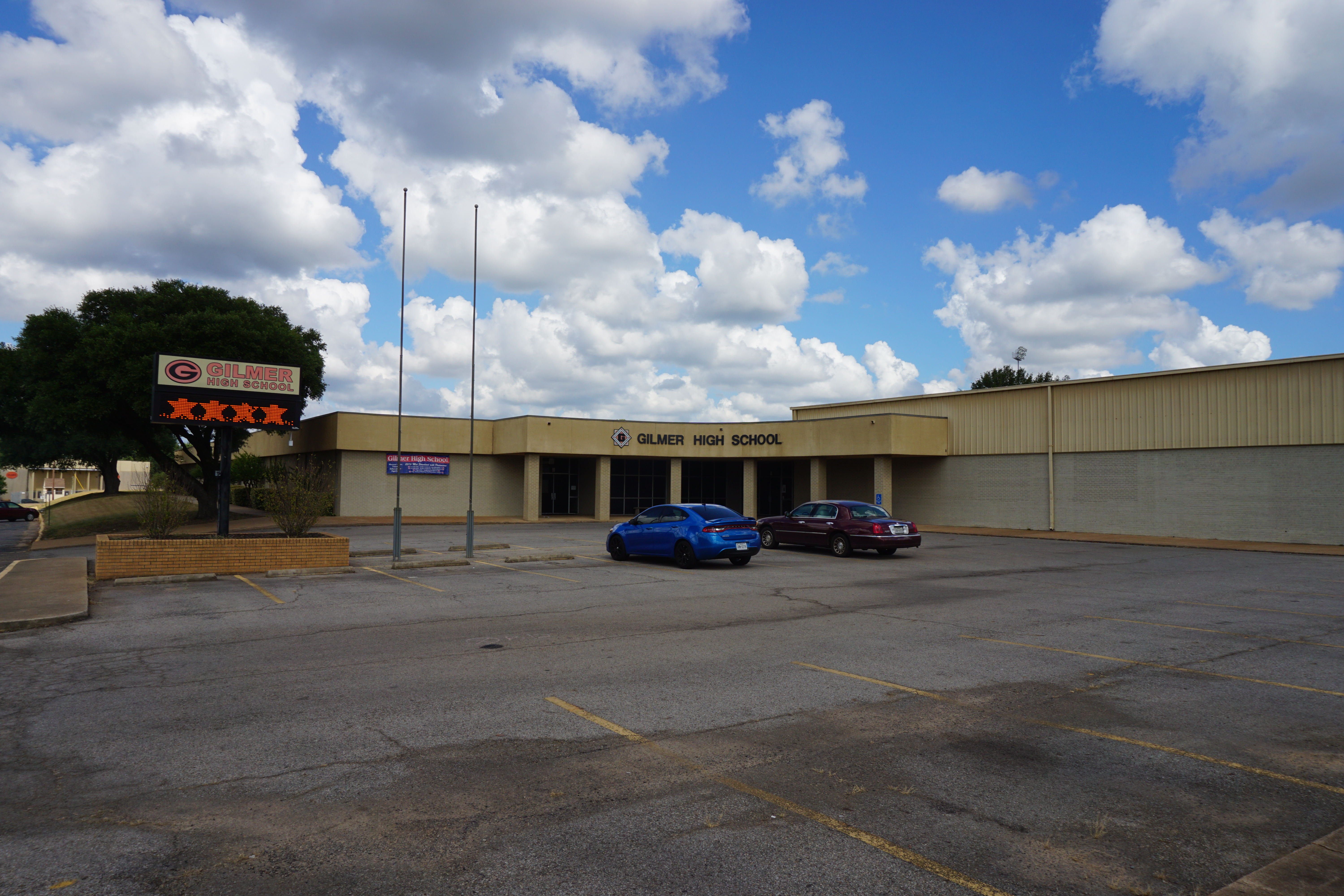 Gilmer High School in Gilmer, Texas (United States).